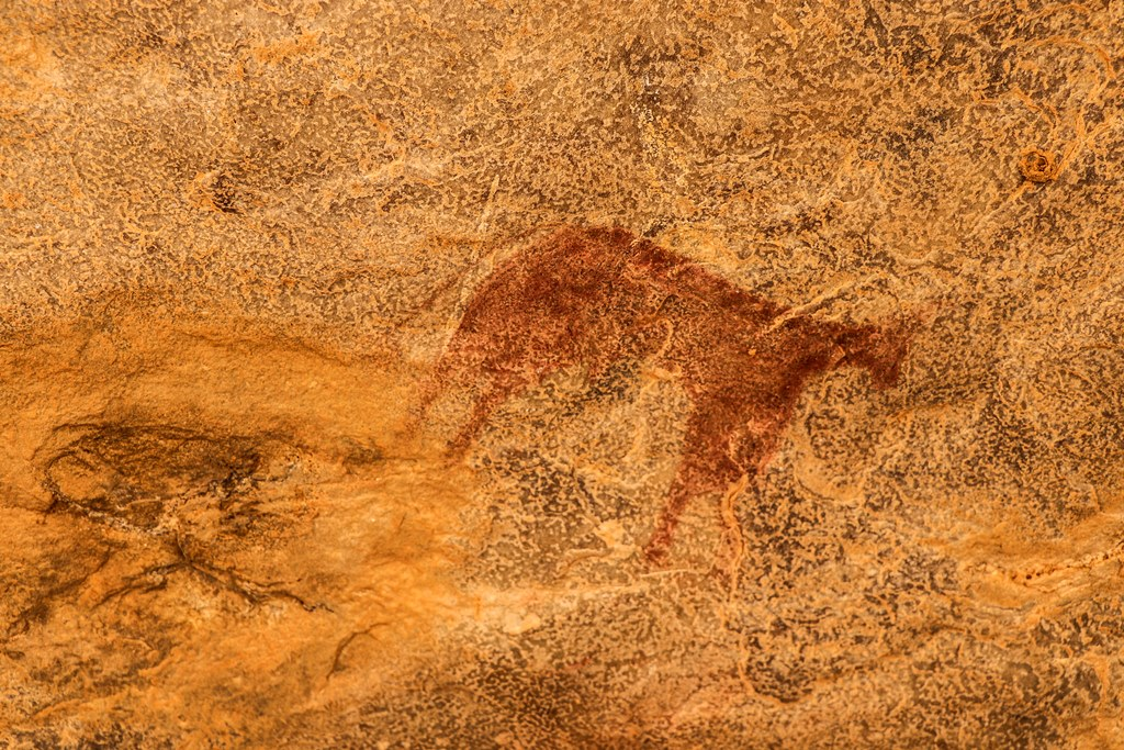 Rock painting of a bovid